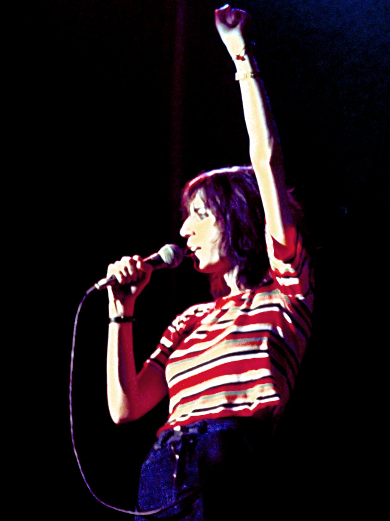 Patti Smith performing at Tivolis Koncertsal, Copenhagen, Denmark.